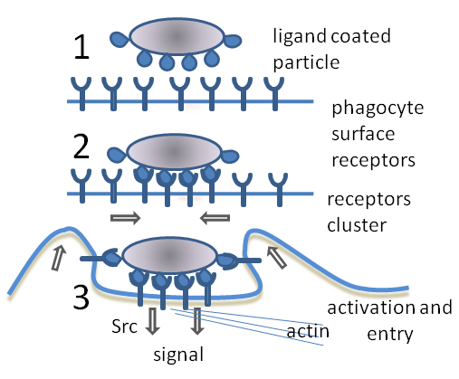 Simplified schematic diagram of Phagocytosis in three stages